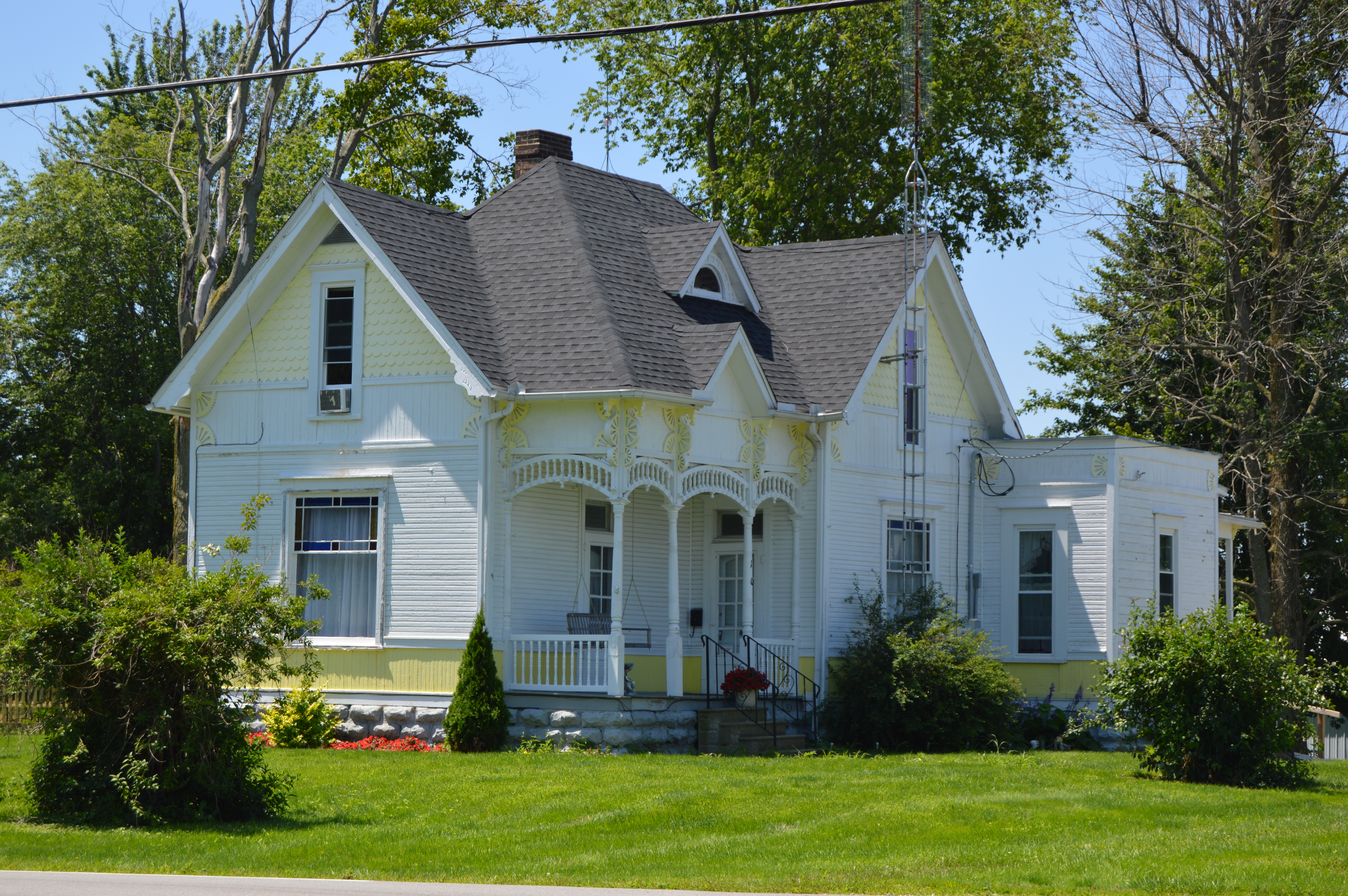 Front and northern side of the house located on the southwestern corner of the junction of River (State Route 634) and Cedar Streets in Dupont, Ohio, United States. The application of Stick-Eastlake elements to a small-town cottage is distinctive and quite unusual.